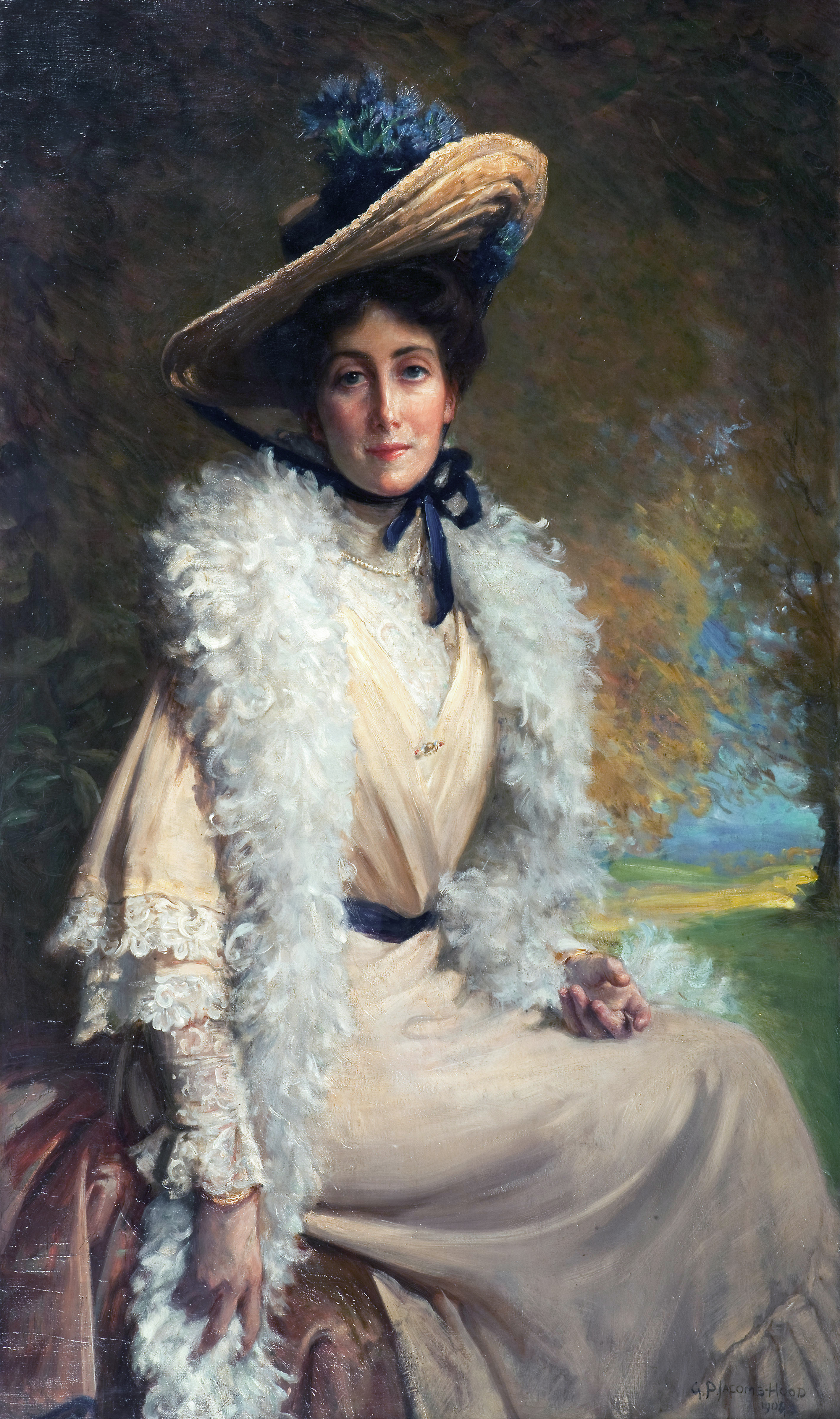 Mrs Walter Frith, daughter-in-law of the artist, William Powell Frith oil on canvas 123 x 78 cm signed b.r.: G.P. Jacomb-Hood / 1904